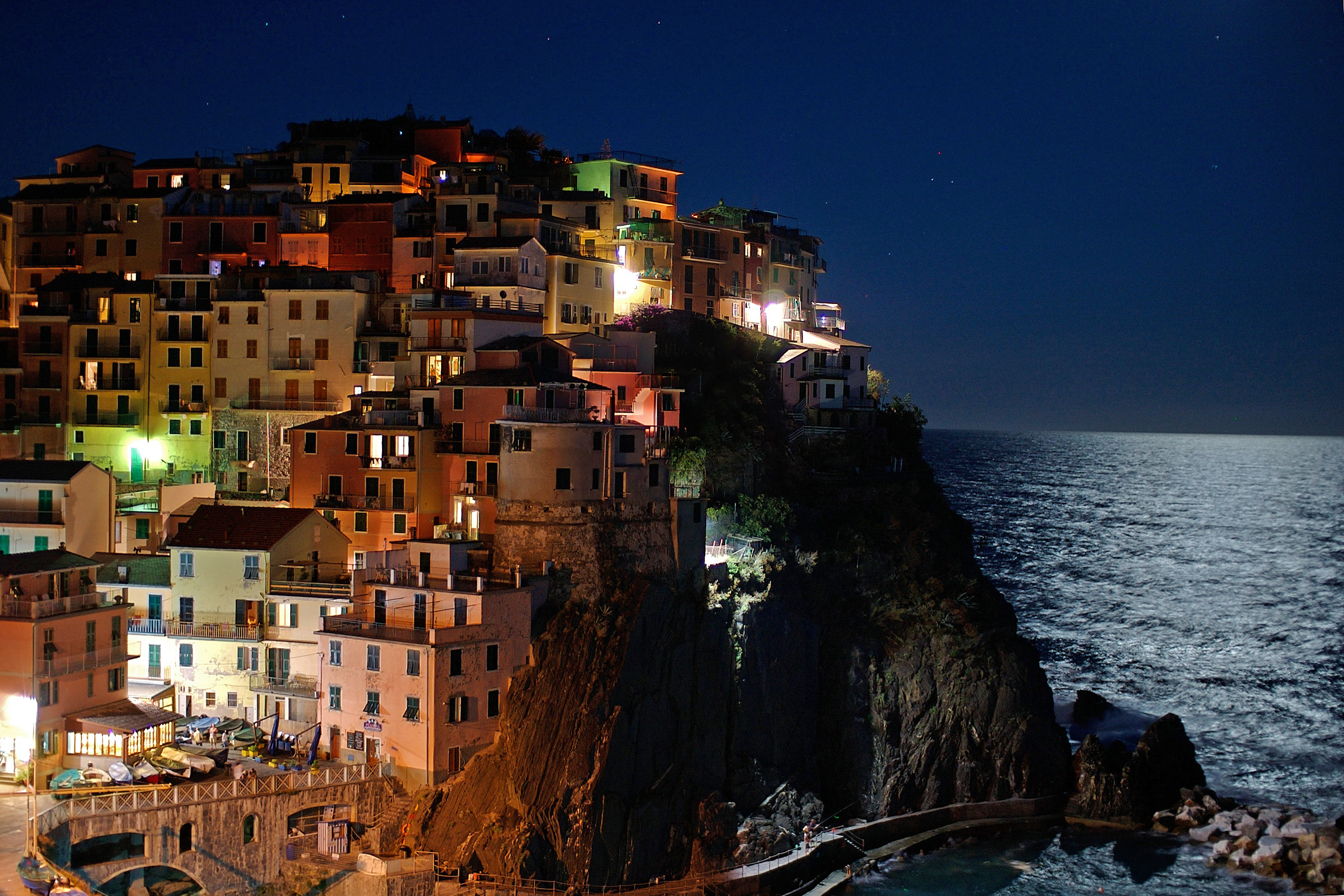 Manarola Riomaggiore by Night